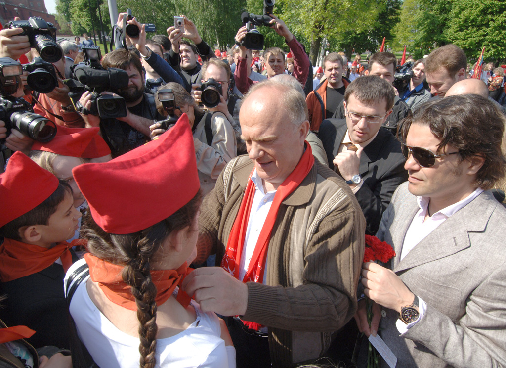 “Becoming Pioneers at Moscow's Alexander Garden”. The Russian Communist Party organized an official Pioneer Initiation Ceremony at Moscow’s Alexander Garden. Thousands of children took part in the event. Center: the party's leader, Gennady Zyuganov.